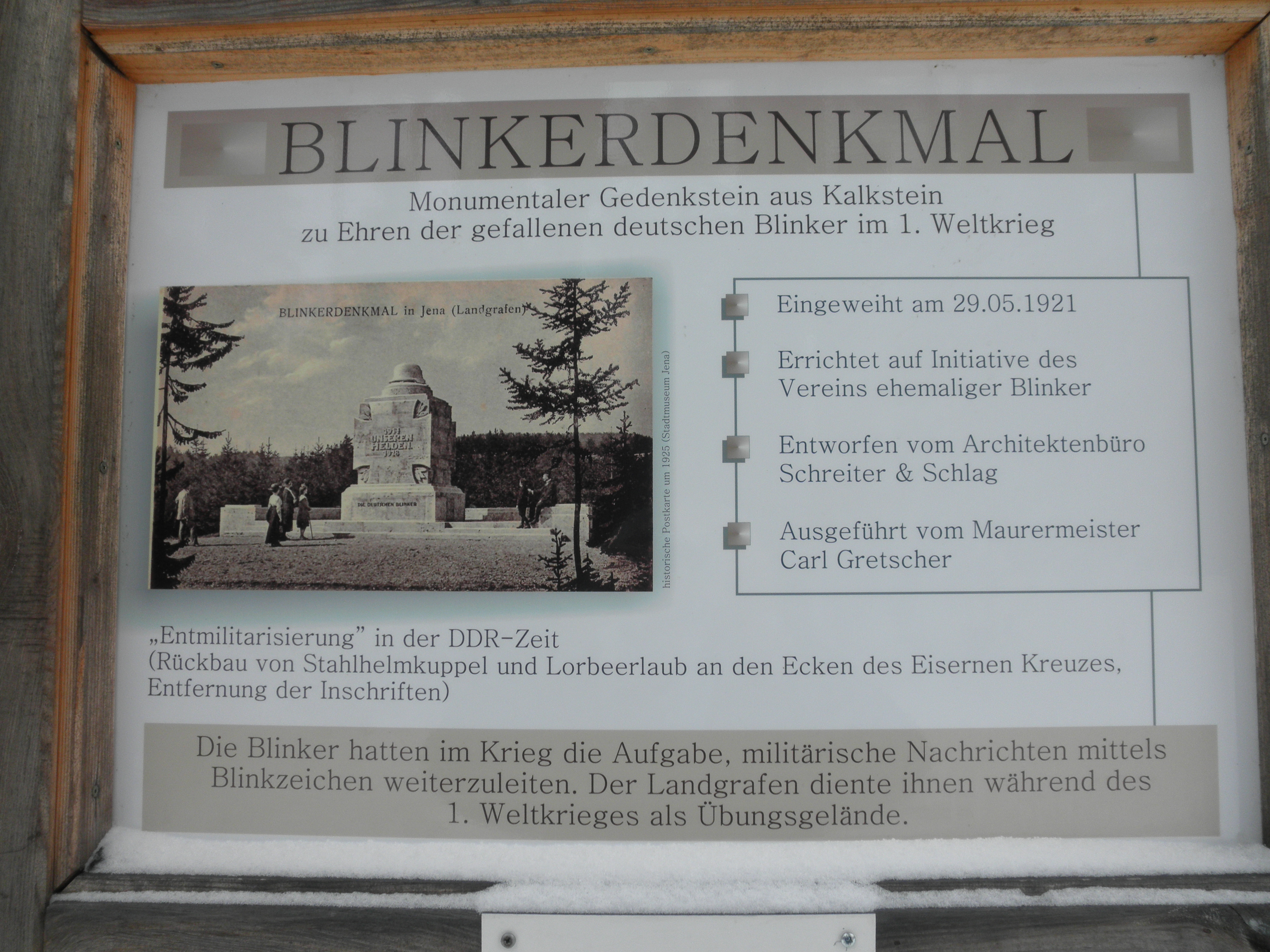 Blinkerdenkmal (War memorial) in Jena in Thuringia